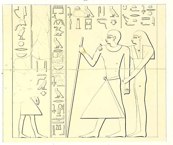 Senedjemib and his wife Tjefi from their tomb in Giza